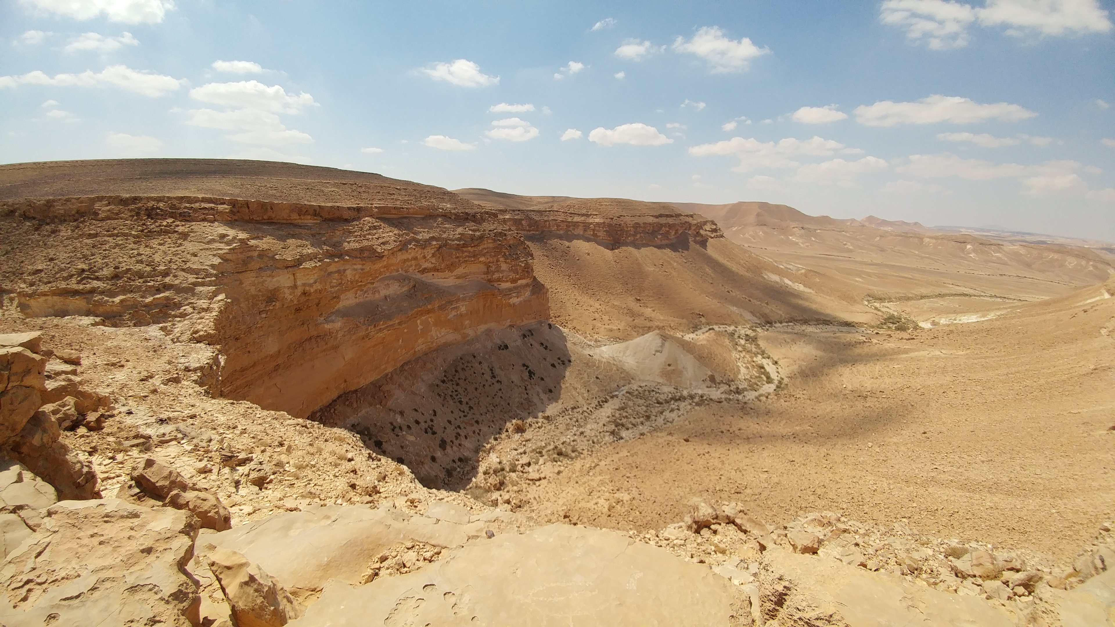 Karkom Winterboure Waterfall on top of Har Karkom ridge, Israel.